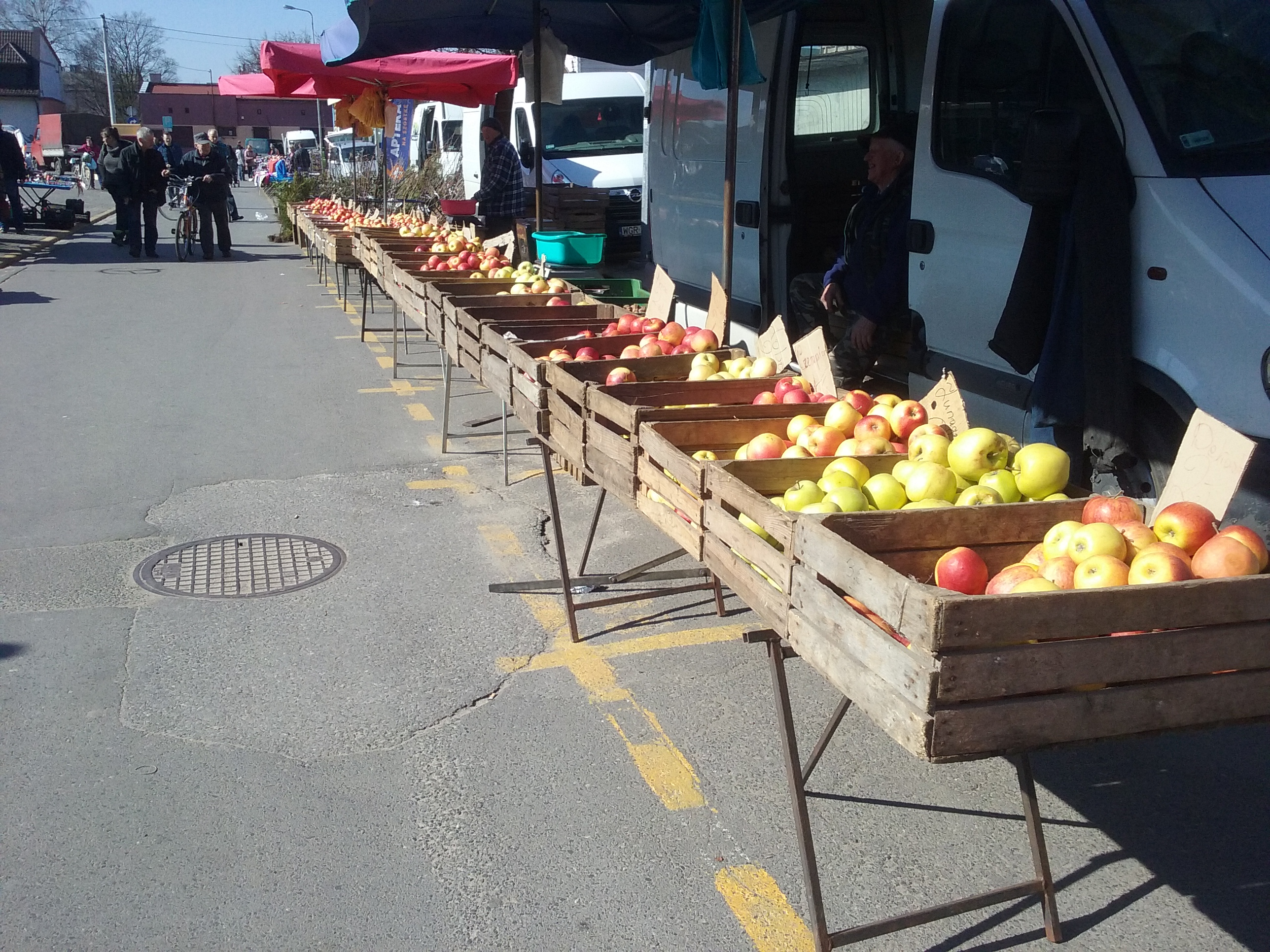 Marketplace in Tomaszów Mazowiecki